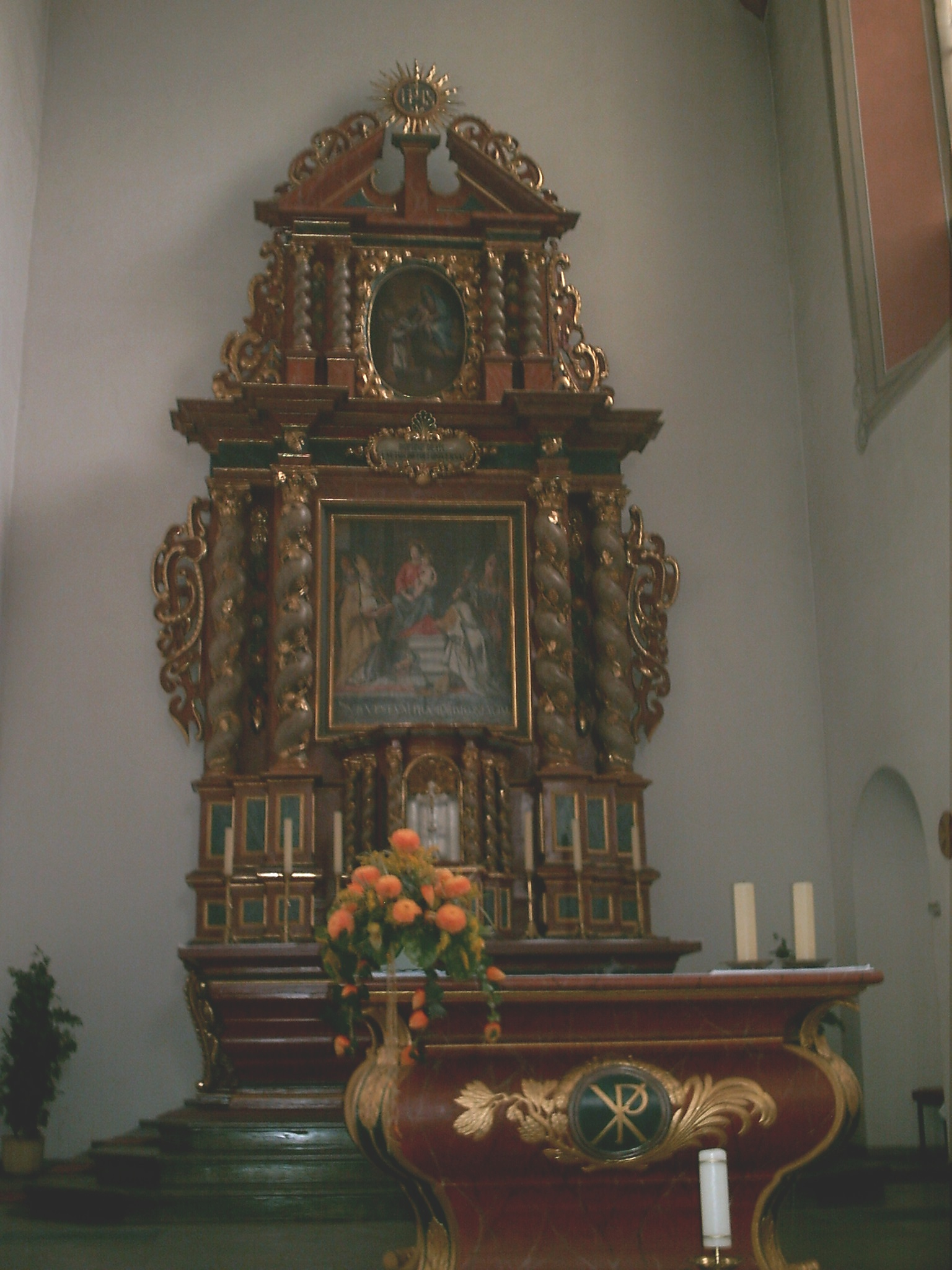 Collegium Liborianum in Paderborn, Germany